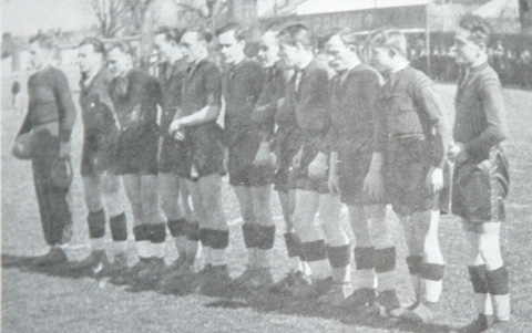 Football club Ukraina Lwów in 1936 year.